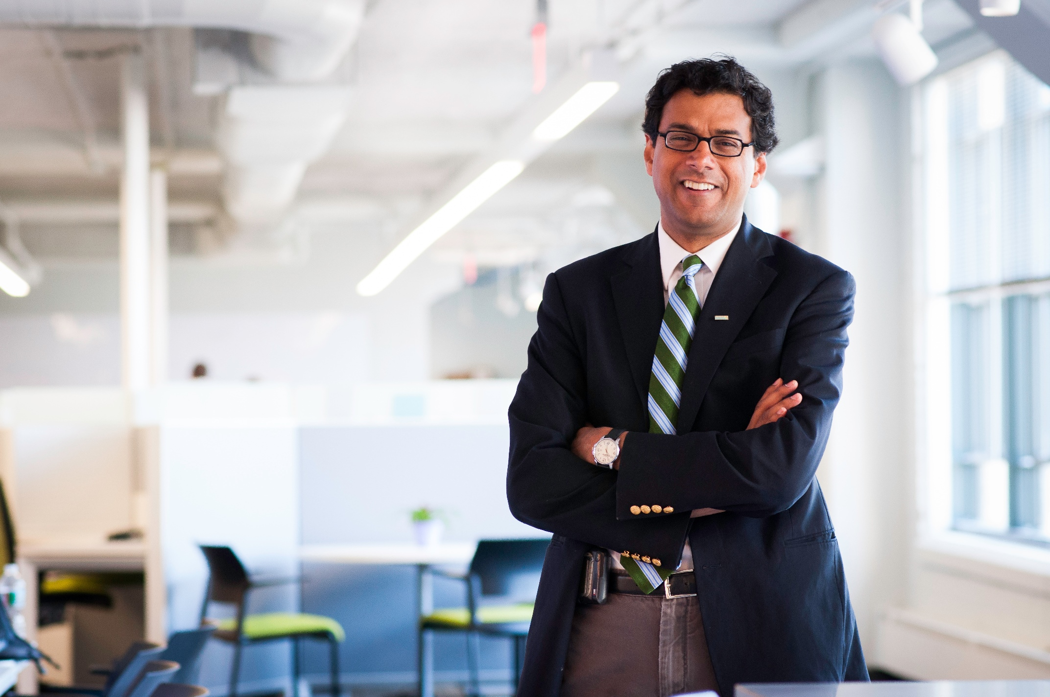 Atul Gawande